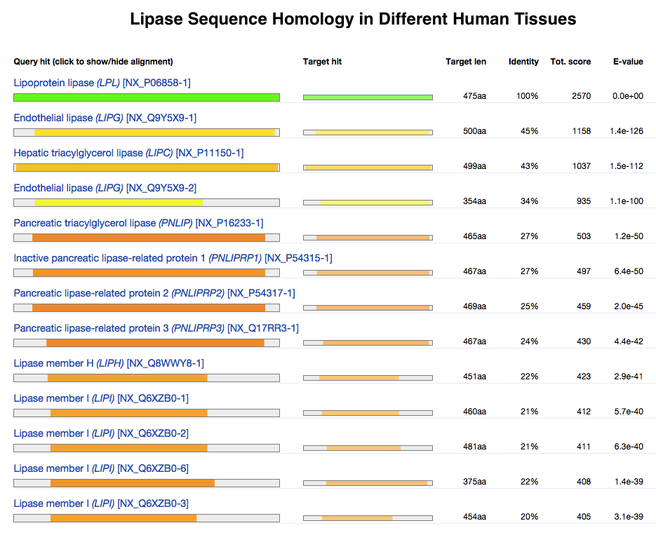 This chart compares the sequence identity of different lipase proteins throughout the human body. It demonstrates how proteins evolution, keeping some regions conserved while others change dramatically.